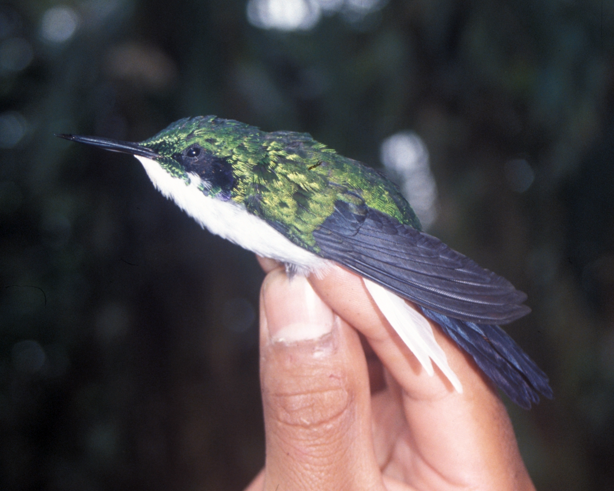 Black-eared Fairy (Heliothryx auritus). Male from Cordillera del Cóndor, Ecuador.